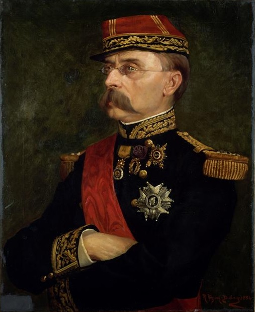 French general Louis Faidherbe (1818-1889).